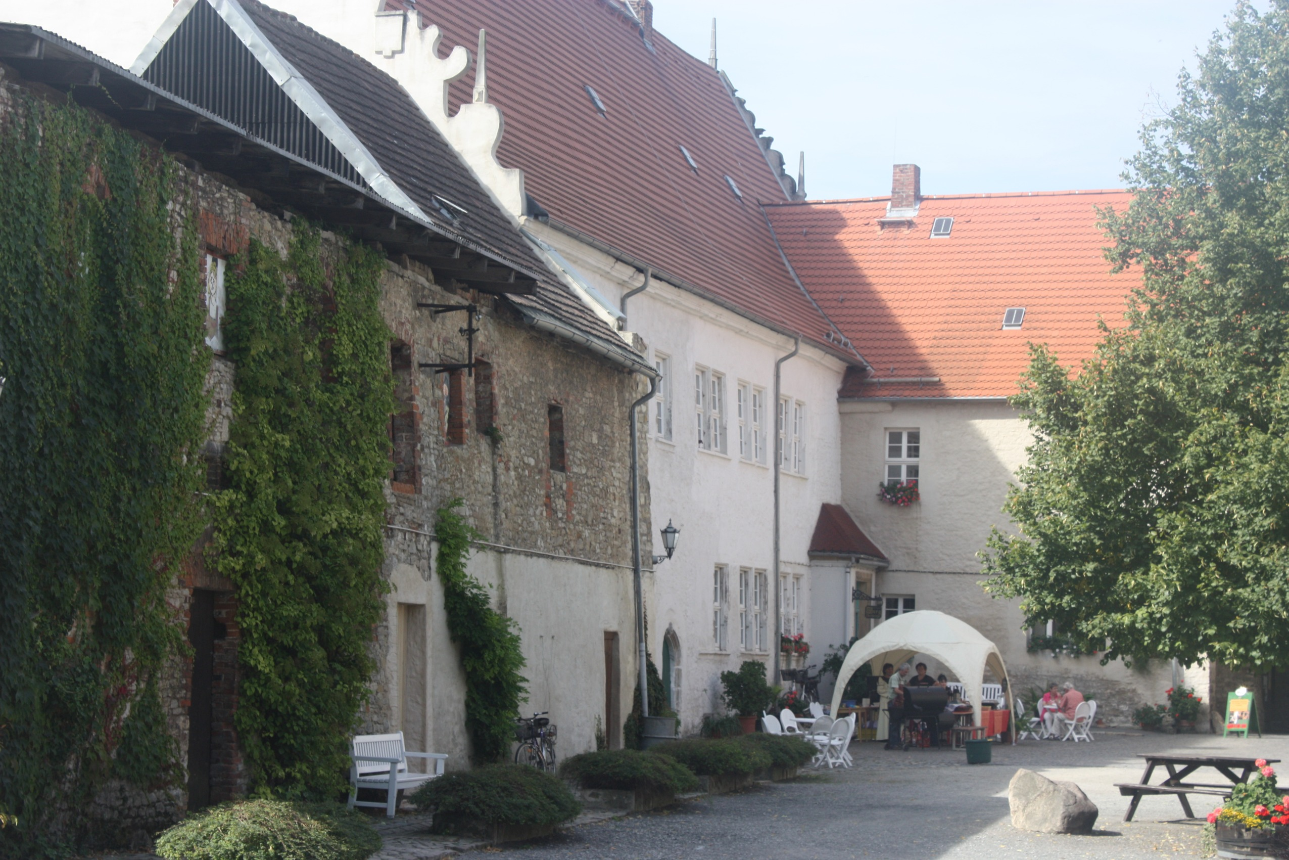 the moated castle Egeln, the castle hotel and the café This is a photograph of an architectural monument. 90142